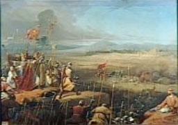 Battle outside the walls of Antioch (23 june 1098) between the crusaders, commanded by Bohemnon, and the army of Kerbogha.